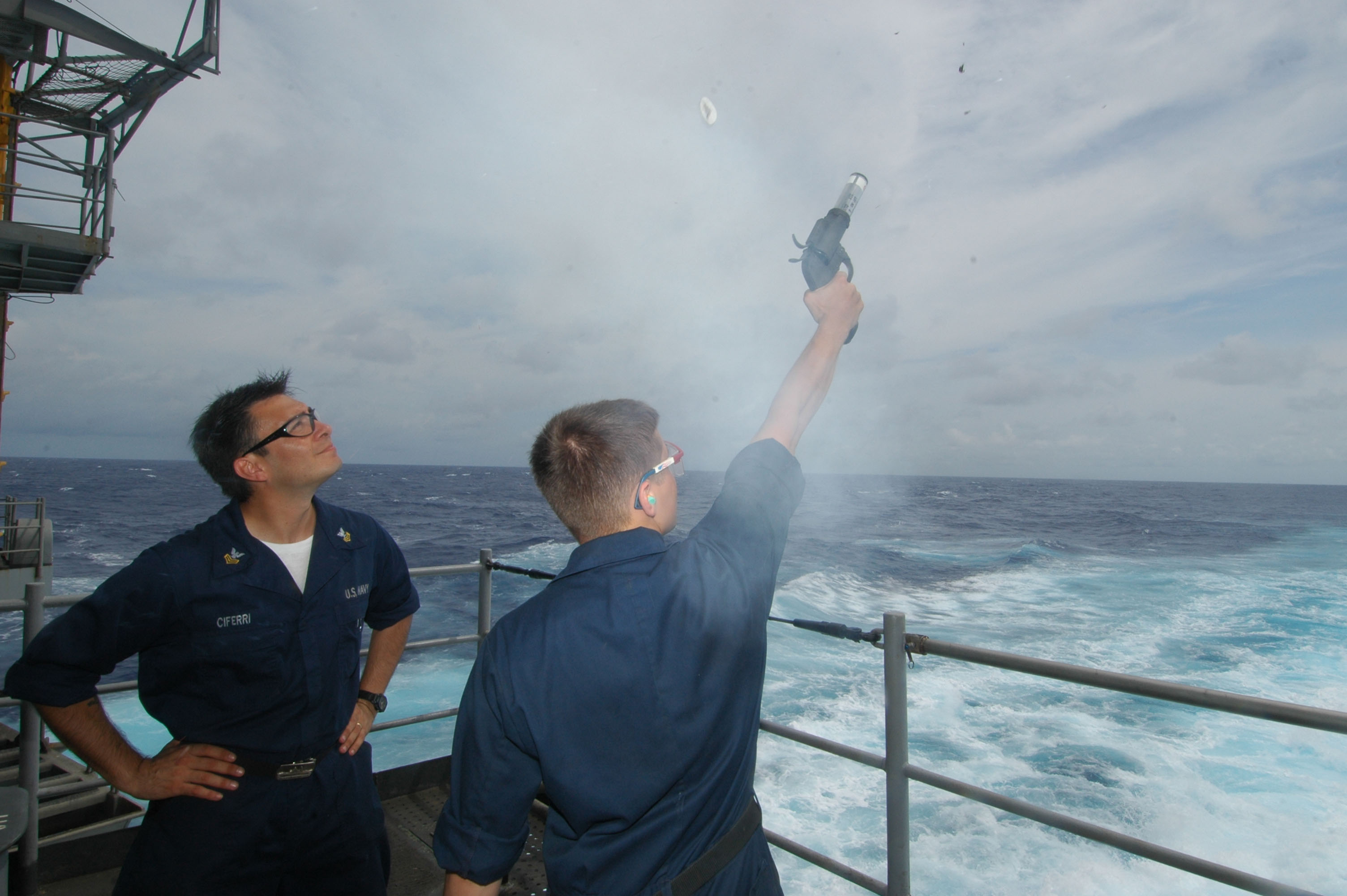 Pacific Ocean (Aug. 26, 2005) - Gunner's Mate 1st Class Walton Ciferri, watches as a weapons department Sailor fires a flare gun off the fantail aboard the conventionally-powered aircraft carrier USS Kitty Hawk (CV 63) during routine training exercise. Flare guns are vital equipment used aboard ships for distress and warning shots. Currently under way in the 7th Fleet area of responsibility (AOR), Kitty Hawk demonstrates power projection and sea control, as the U.S. Navy's only permanently forward-deployed aircraft carrier, operating from Yokosuka, Japan. U.S. Navy photo by Photographer's Mate Airman Joshua Wayne LeGrand (RELEASED)